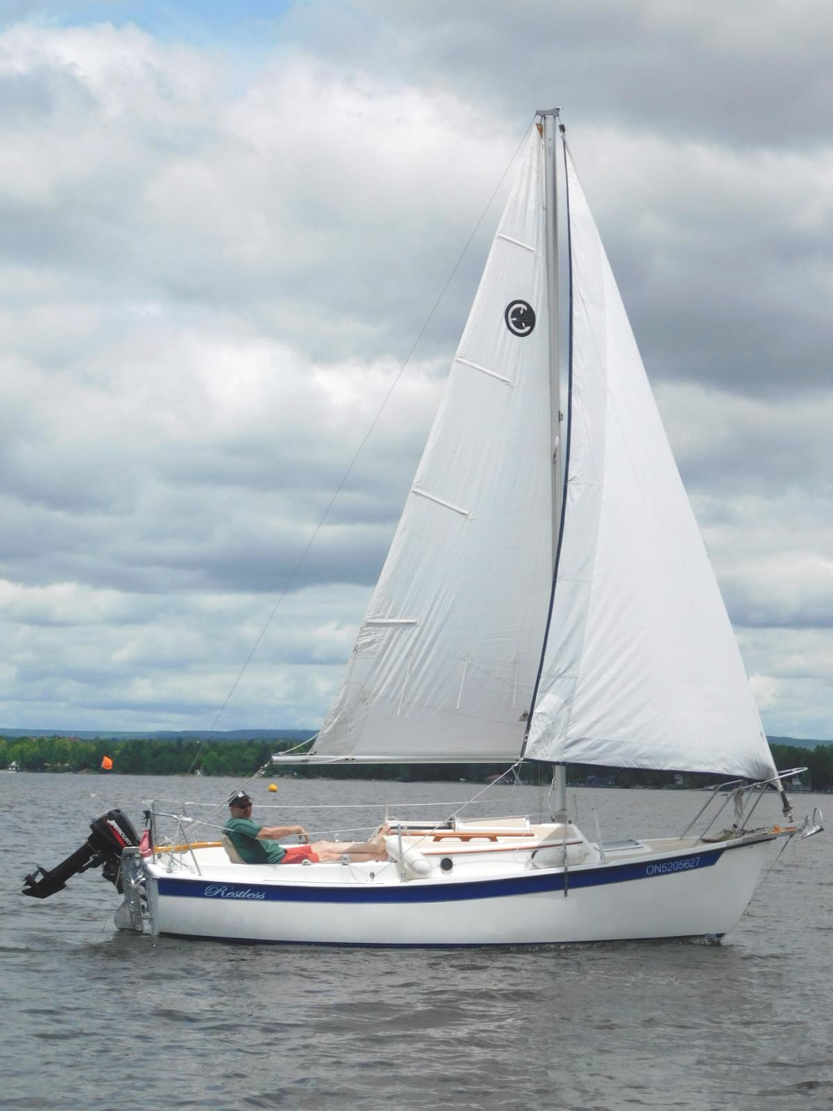 A Compac 19 sailboat named Restless.